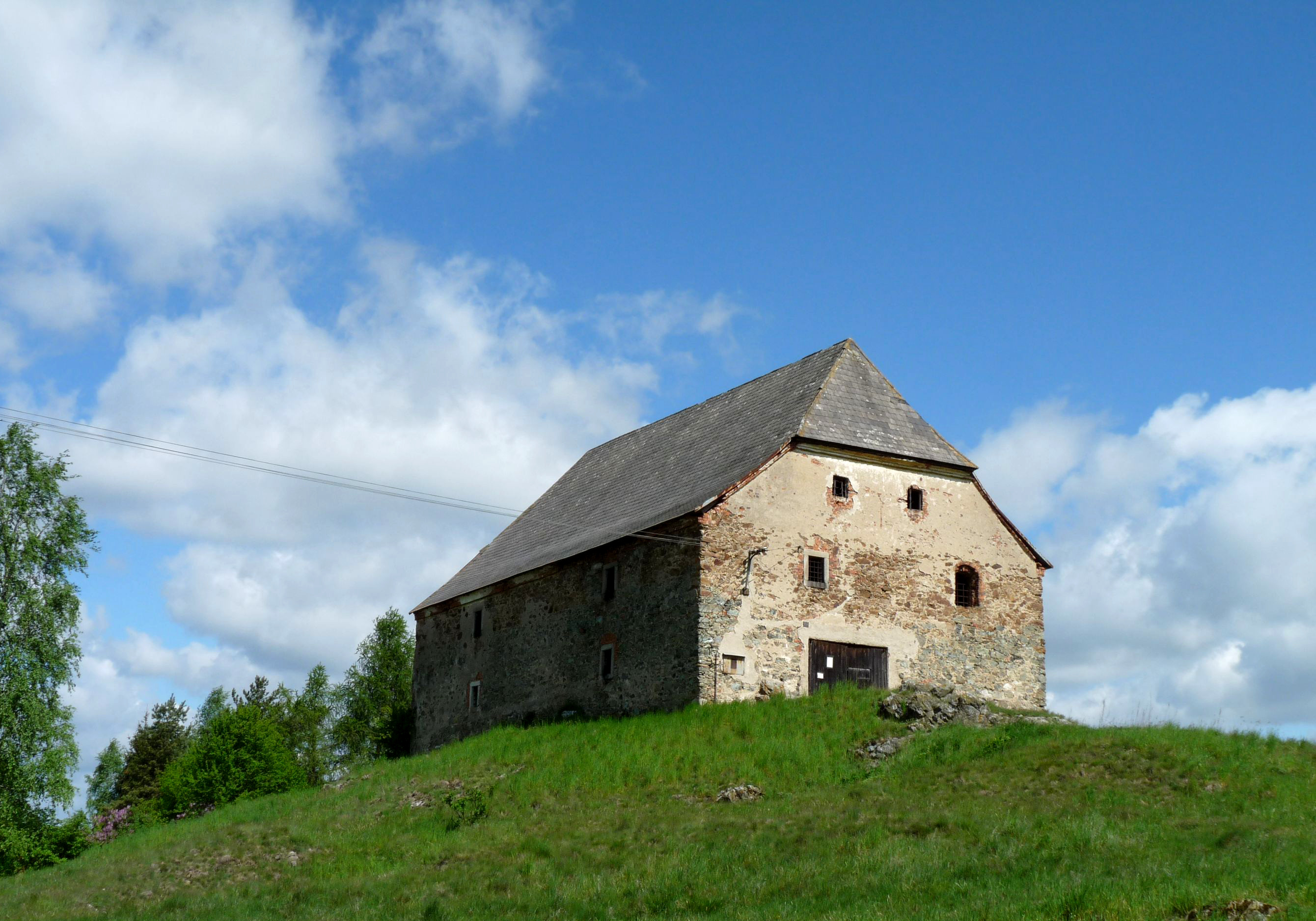 Tvrz in the village of Železné Horky, Havlíčkův Brod District, Vysočina Region, Czech Republic.